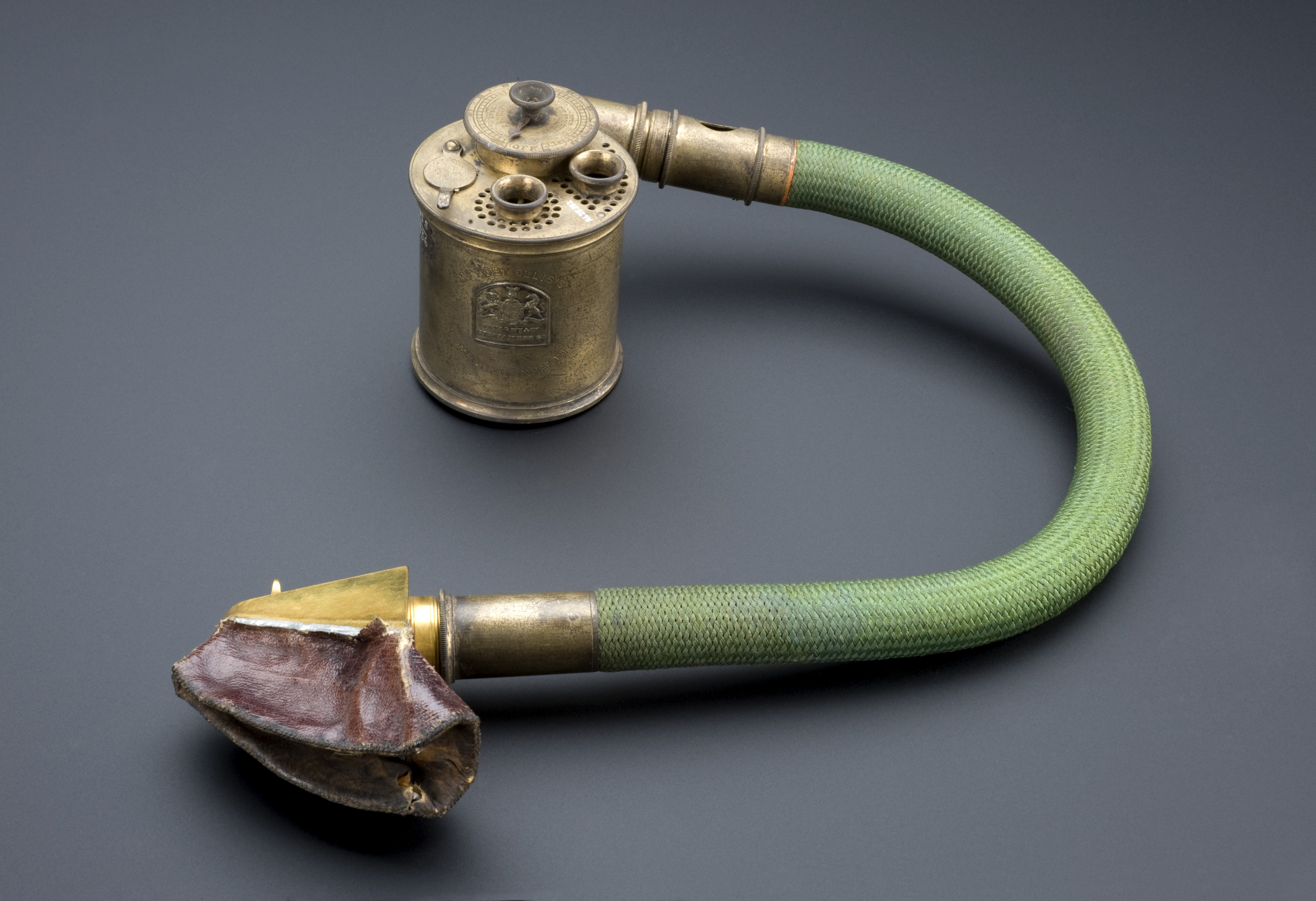 This anaesthetic inhaler could be used to give a combination of alcohol, ether and chloroform or just one of these components. It was originally intended for obstetrics and childbirth and was probably also used for surgical procedures. The proportion of mixture could be controlled easily and was measured on the engraved scale. The inhaler was invented by Robert Ellis (1822-1885). The face mask used to inhale the vapours was invented by John Snow (1813-1858), the first specialised anaesthetist in the United Kingdom. maker: Savigny and Company Place made: London, Greater London, England, United Kingdom Wellcome Images Keywords: inhaler; ether; Obstetrics